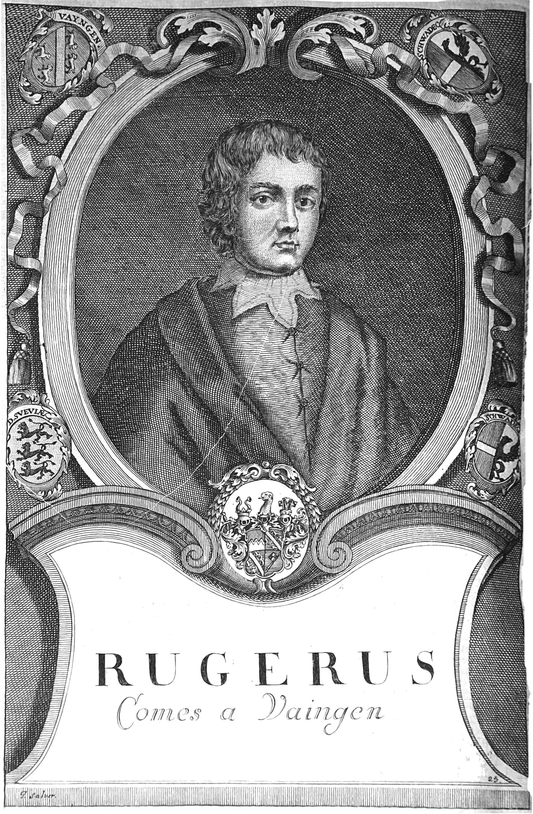 Rugger 1121-1125 Bishop of Würzburg